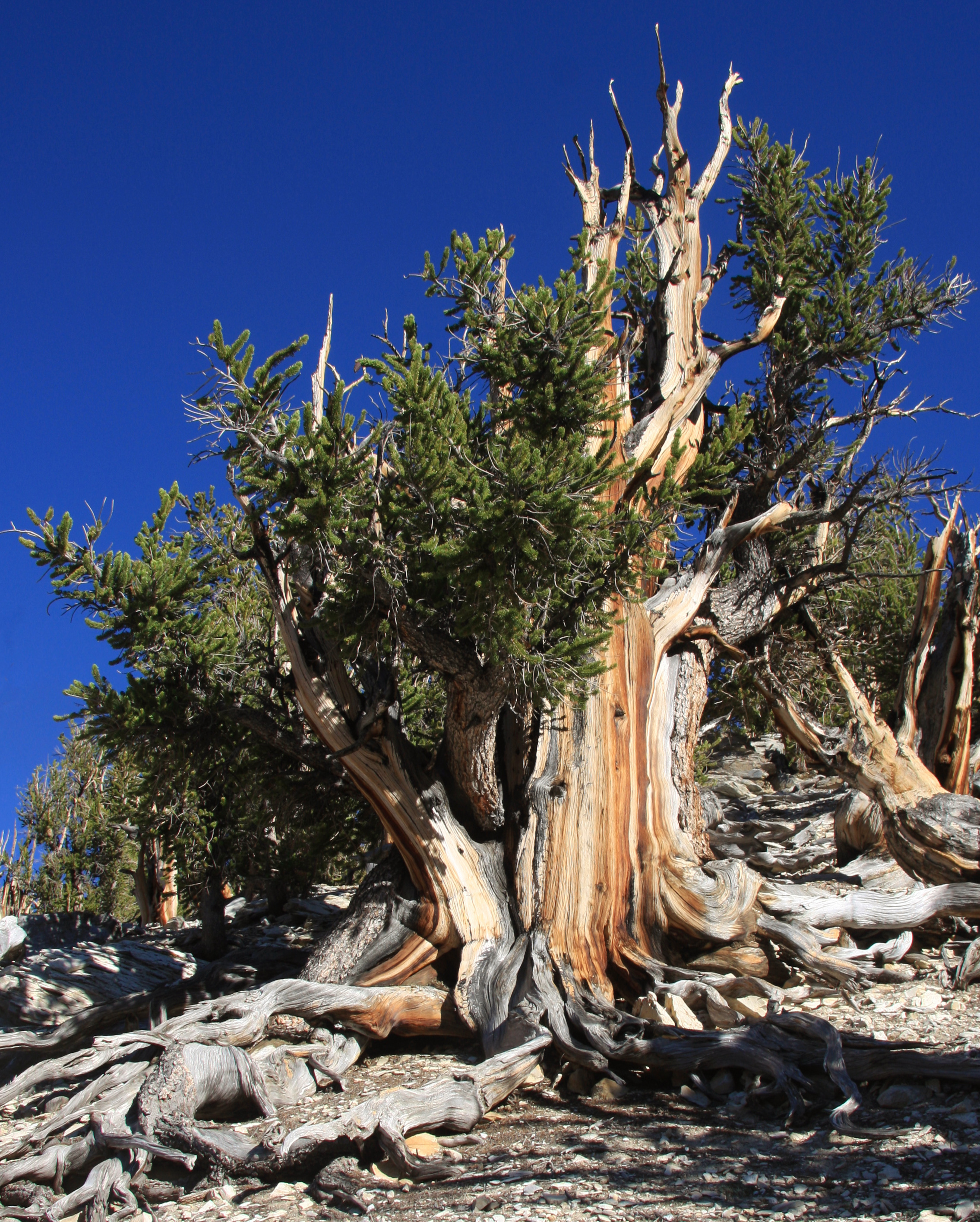 A large Great Basin Bristlecone Pine Pinus longaeva, showing both live and dead sections, and streaked grain colors on broad trunk. Along the Methuselah Trail, Schulman Grove in the Ancient Bristlecone Pine Forest of the Inyo National Forest, in the White Mountains, Inyo County, eastern California.